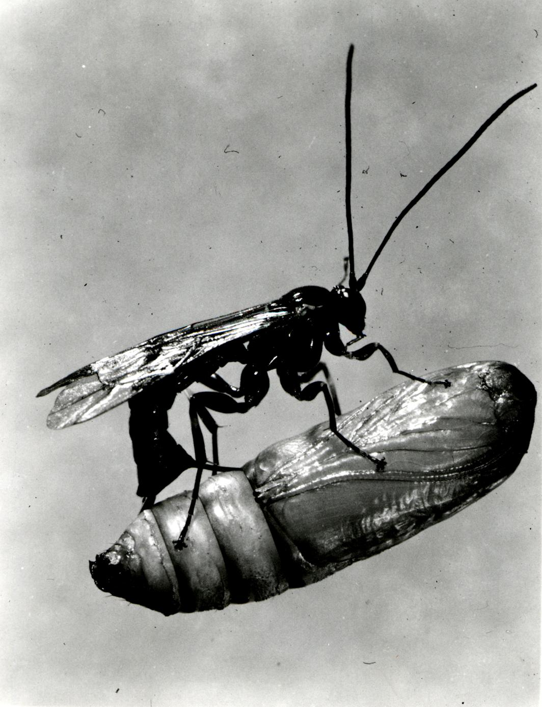 Hymenoptera Ichneumonidae Apechthis ontario Parasite adult is laying egg in pupa of greater wax moth (Galleria mellonella). Corvallis, Oregon. Note: This image was used for Figure 265 on page 462 in: Furniss R.L. and V.M. Carolin. 1977. Western forest insects. US Department of Agriculture, Forest Service. Photo by: R. Ryan Date: November 1962 Credit: USDA Forest Service, Pacific Northwest Region, State and Private Forestry, Forest Health Protection. Collection: Portland Station Collection; La Grande, Oregon. Image: PS-3043 For additional historic forest entomology photos, stories, and resources see the Western Forest Insect Work Conference site: Image provided by USDA Forest Service, Pacific Northwest Region, State and Private Forestry, Forest Health Protection: This image or file is a work of a United States Department of Agriculture employee, taken or made as part of that person's official duties. As a work of the U.S. federal government, the image is in the public domain.